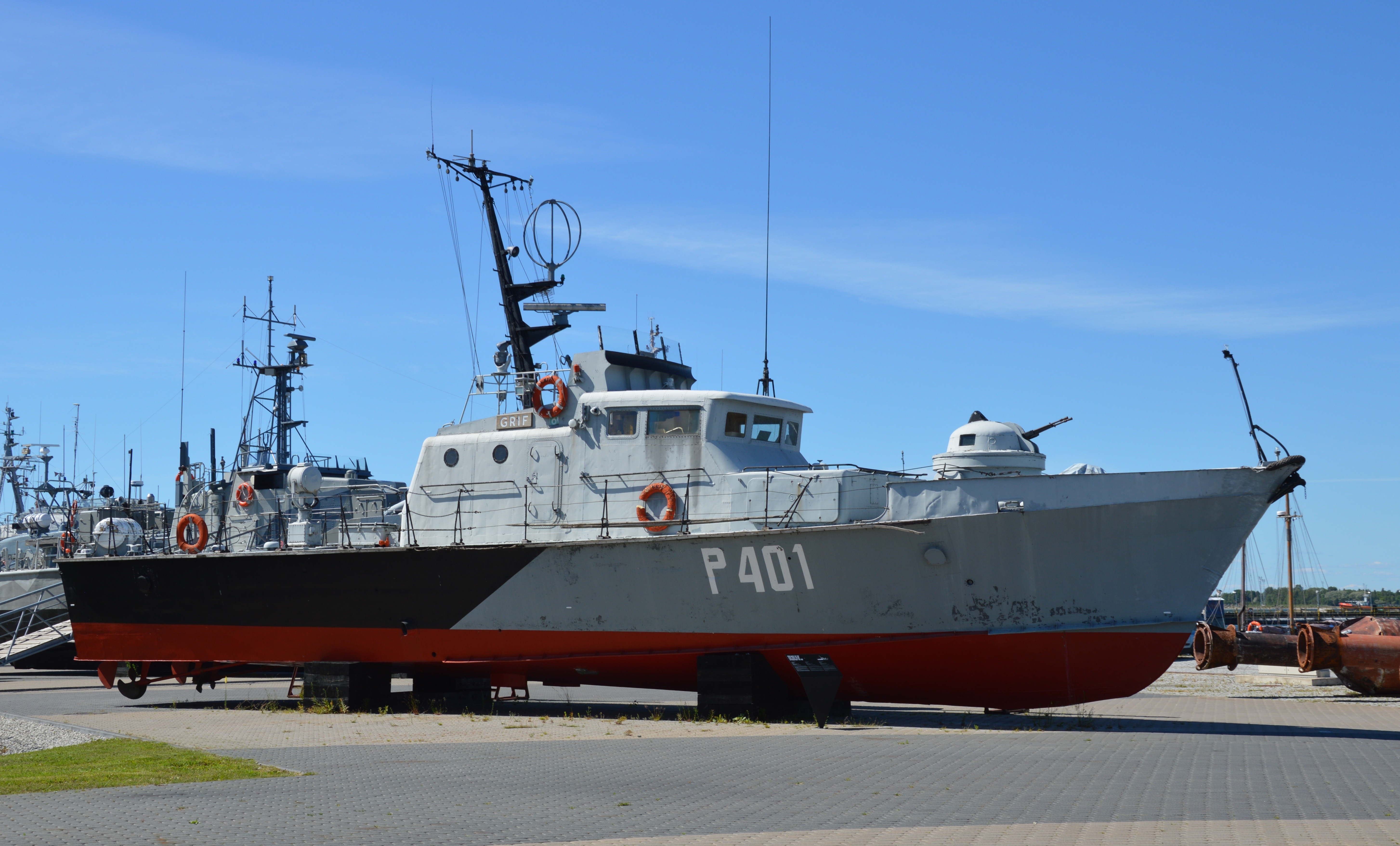 EML Grif Estonian patrol boat